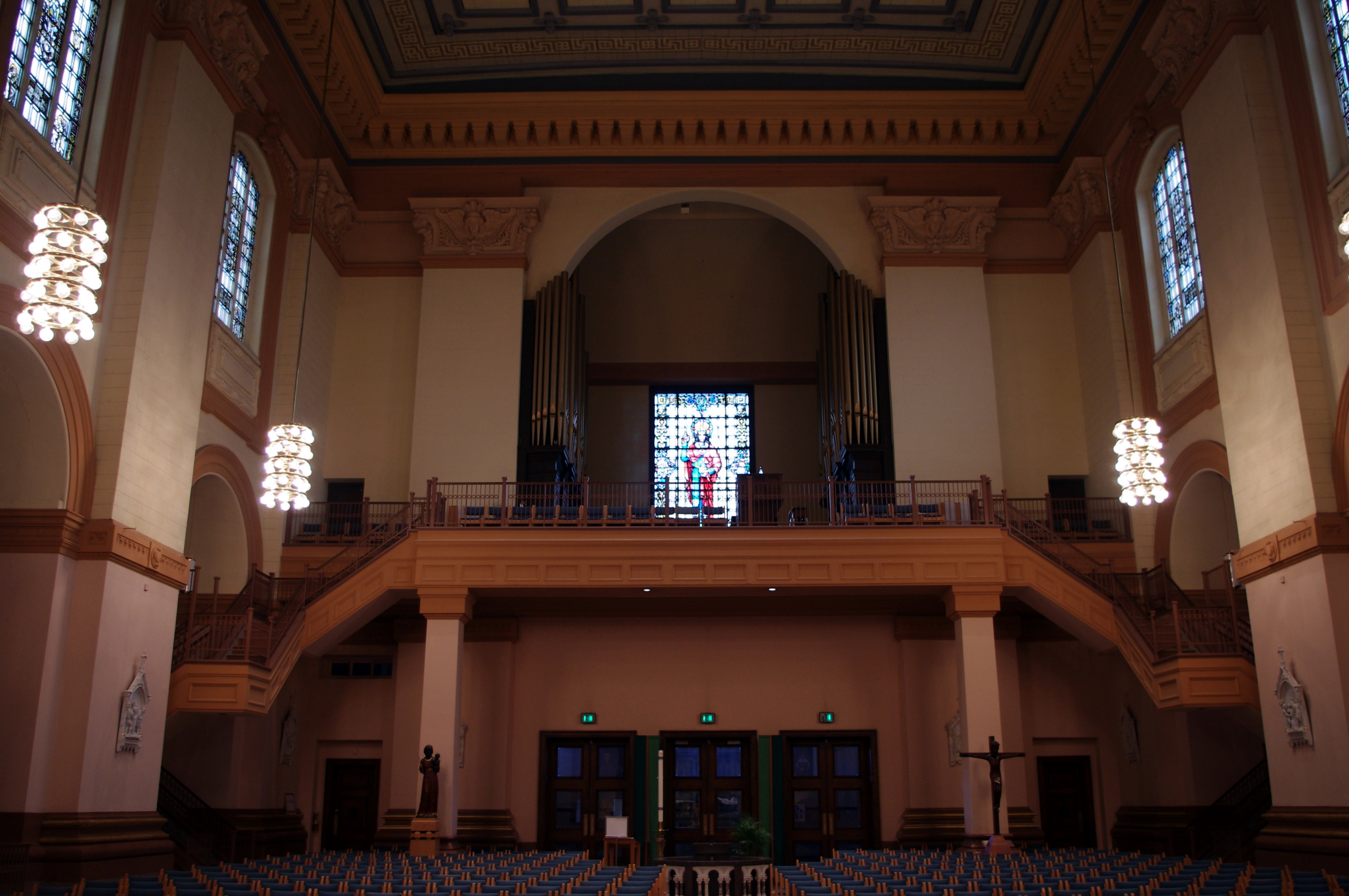 Saints Peter & Paul Cathedral (Indianapolis, Indiana), interior, rear of nave and organ loft